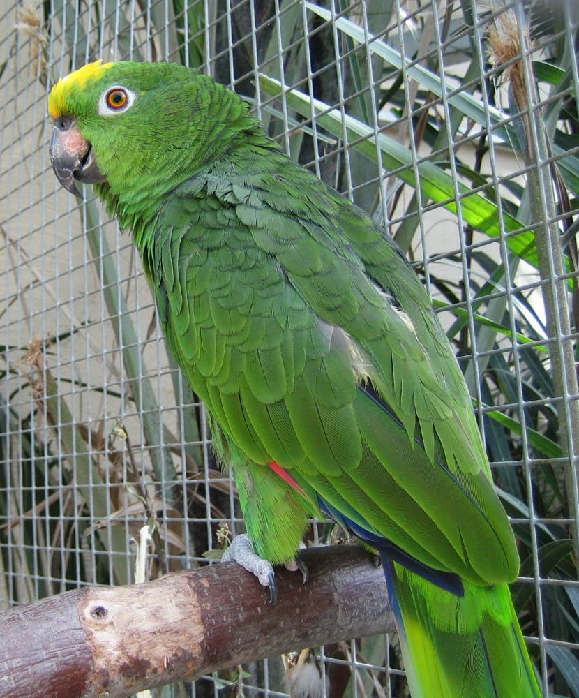 Yellow-crowned Amazon (A. o. ochrocephala) in captivity.